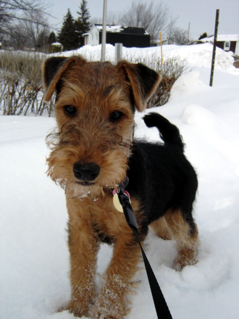 Sophie the Welsh Terrier